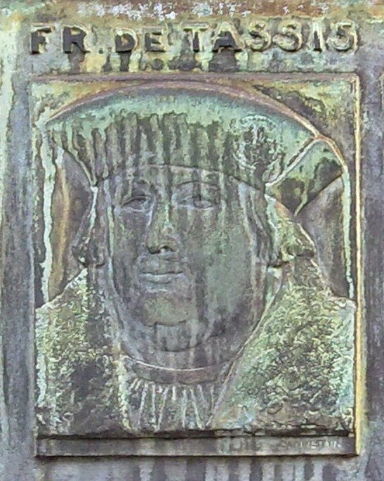 Françoise de Tassis. memorial board. located "rue de la Régence" Brussels.